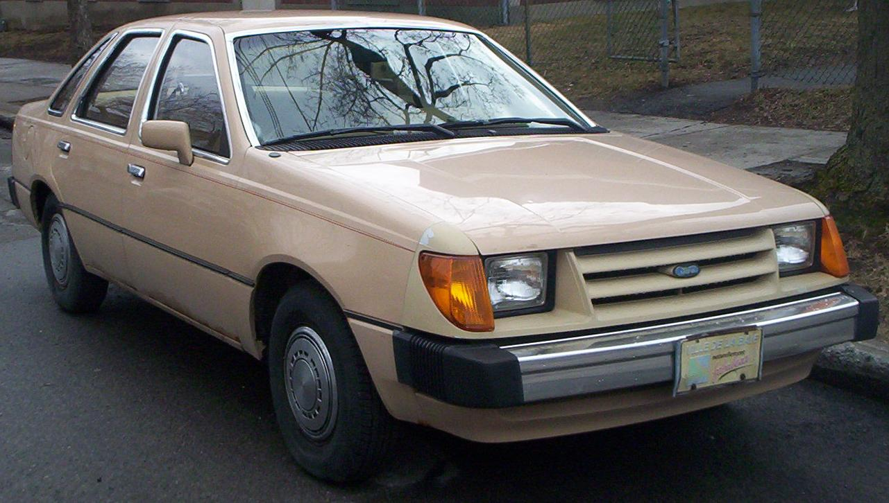 1984-1985 Ford Tempo photographed in Montreal, Quebec, Canada.